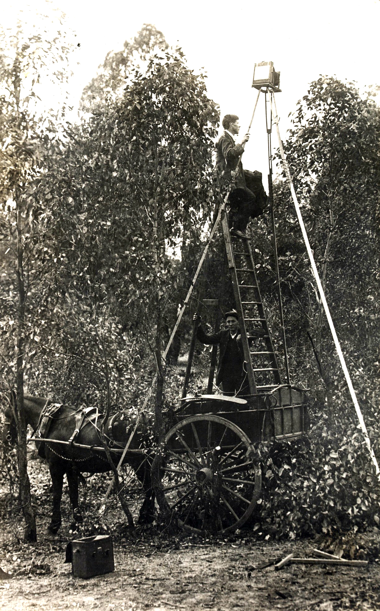 Bird watching photographers, New South Wales, June 1921, AH Chisholm, State Library of New South Wales PXE 1264